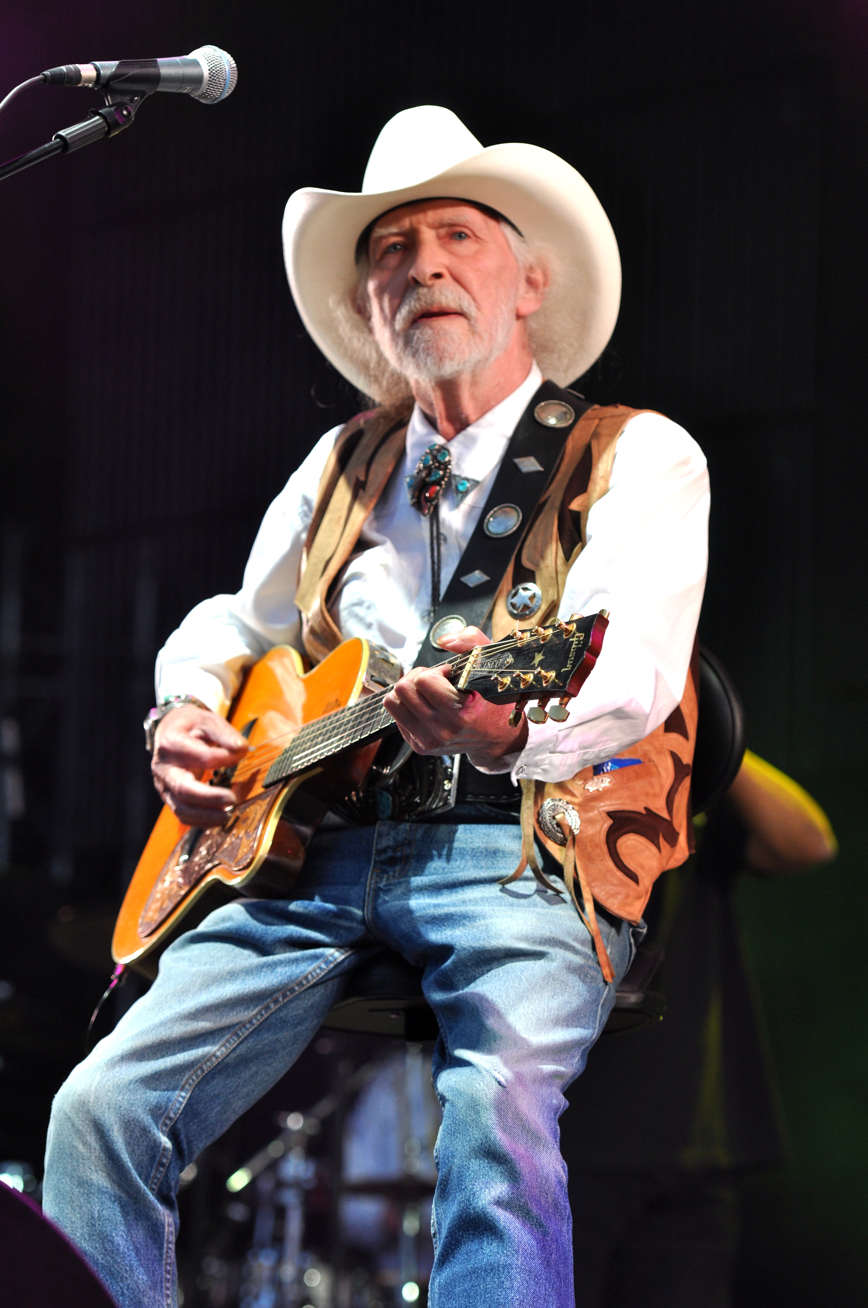 Country musician Cisco Berndt of Truck Stop at the International Truck Grand Prix Country Festival 2013, Nürburgring, Germany